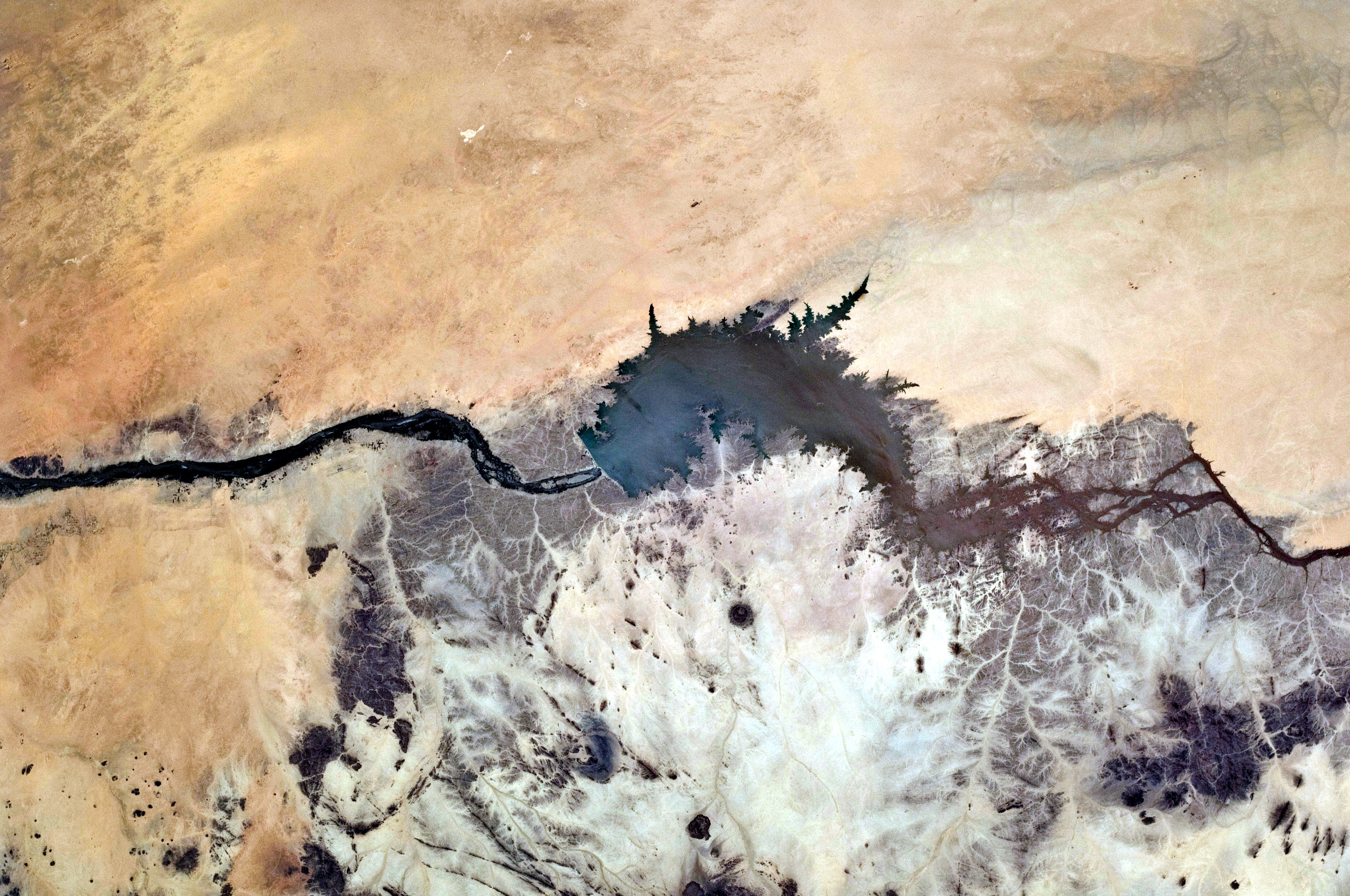 This astronaut photograph of Merowe Dam illustrates the current extent of the reservoir, which has been filling behind the dam since the final spill gate was closed in 2008. Dar al-Manasir, Nubia - northern Sudan. Image acquired with a Nikon D2Xs digital camera using a 50 mm lens, and is provided by the ISS Crew Earth Observations experiment and Image Science & Analysis Laboratory, Johnson Space Center.